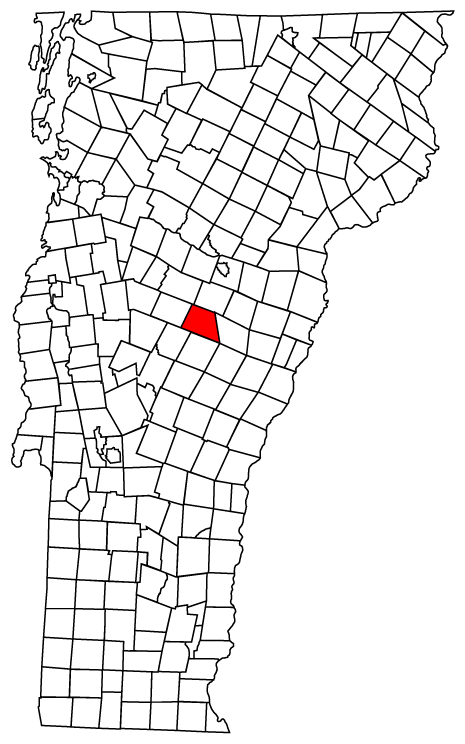 Map of Vermont towns with Brookfield highlighted